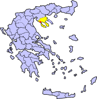 Nea Moudania (Chalkidiki Prefecture) town locator map in Greece.